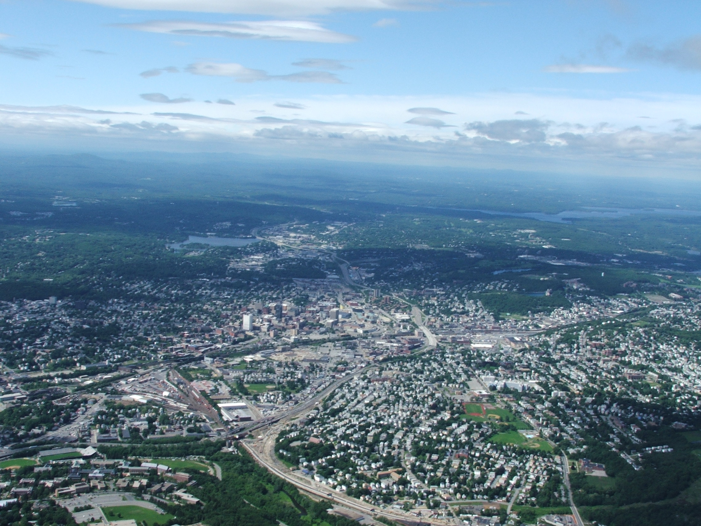 Worcester Massachusetts And The Surrounding Area. Viewed From The South Looking To The North. Taken from 3700 Feet in A Cessna 150 Airplane.